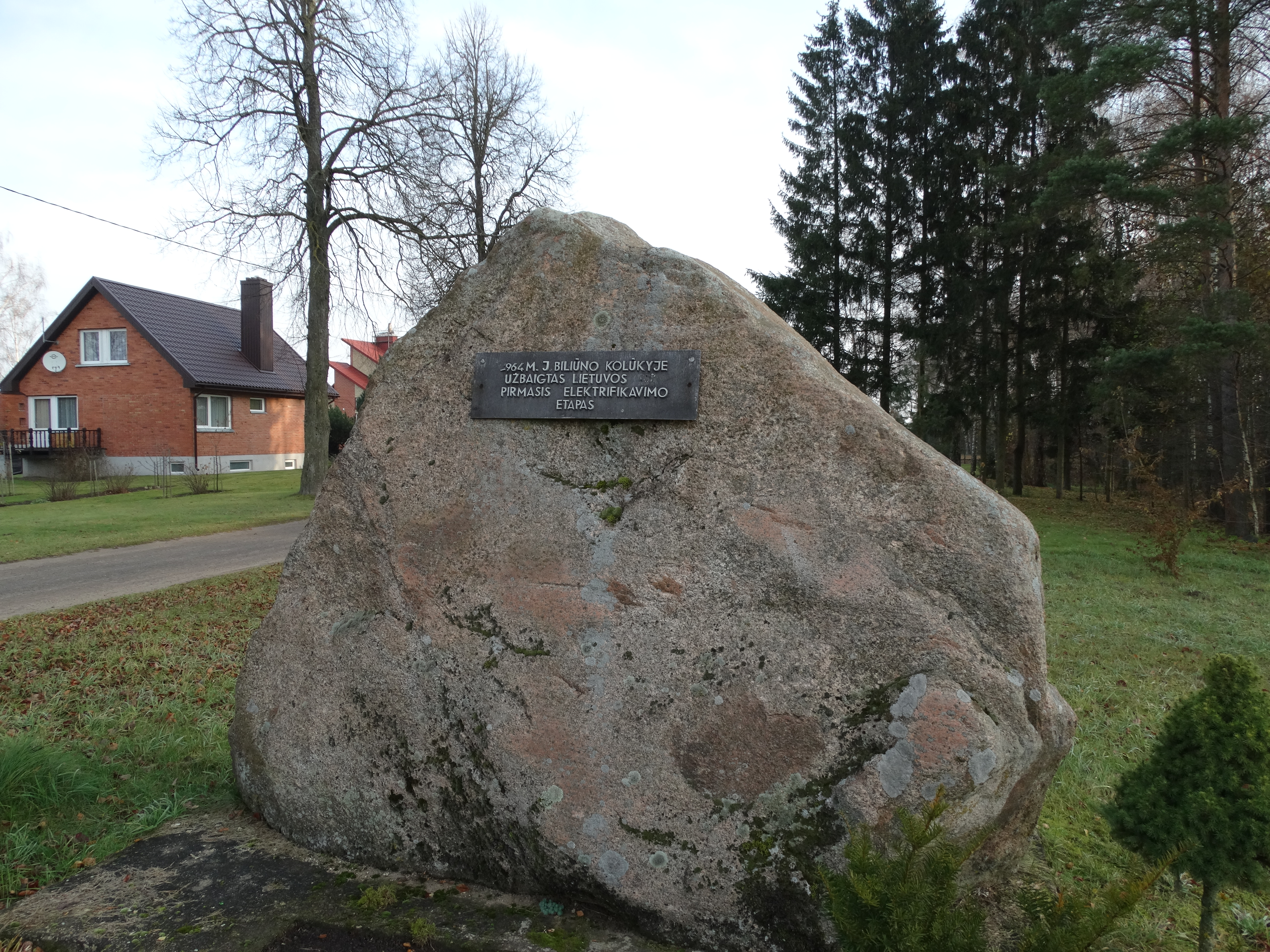 Stone with a commemorative plaque to mark completion of the 1st phase of electrification in 1964, Meilūnai, Biržai district, Lithuania